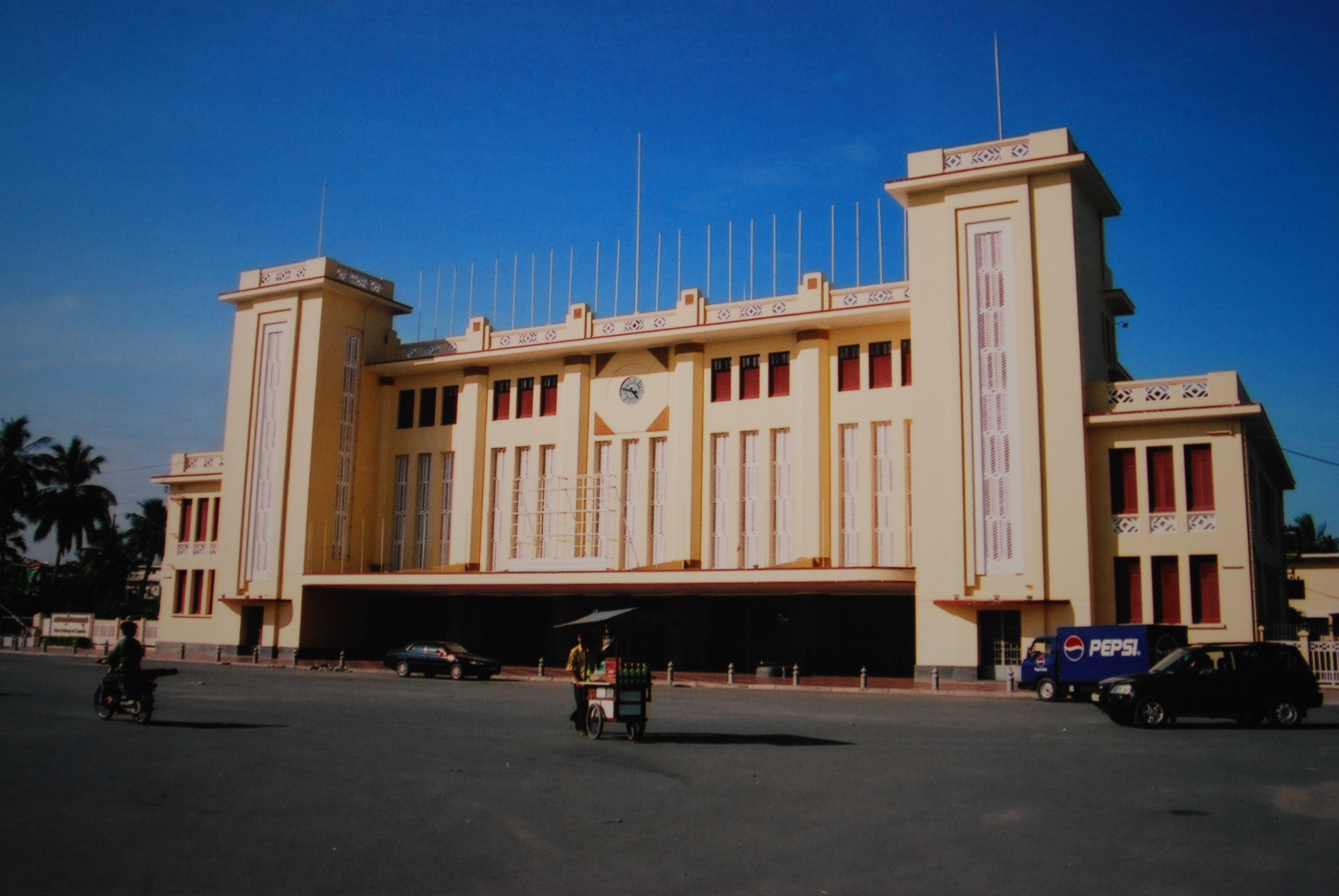 Phnom Penh sta.,phnom penh city,cambodia